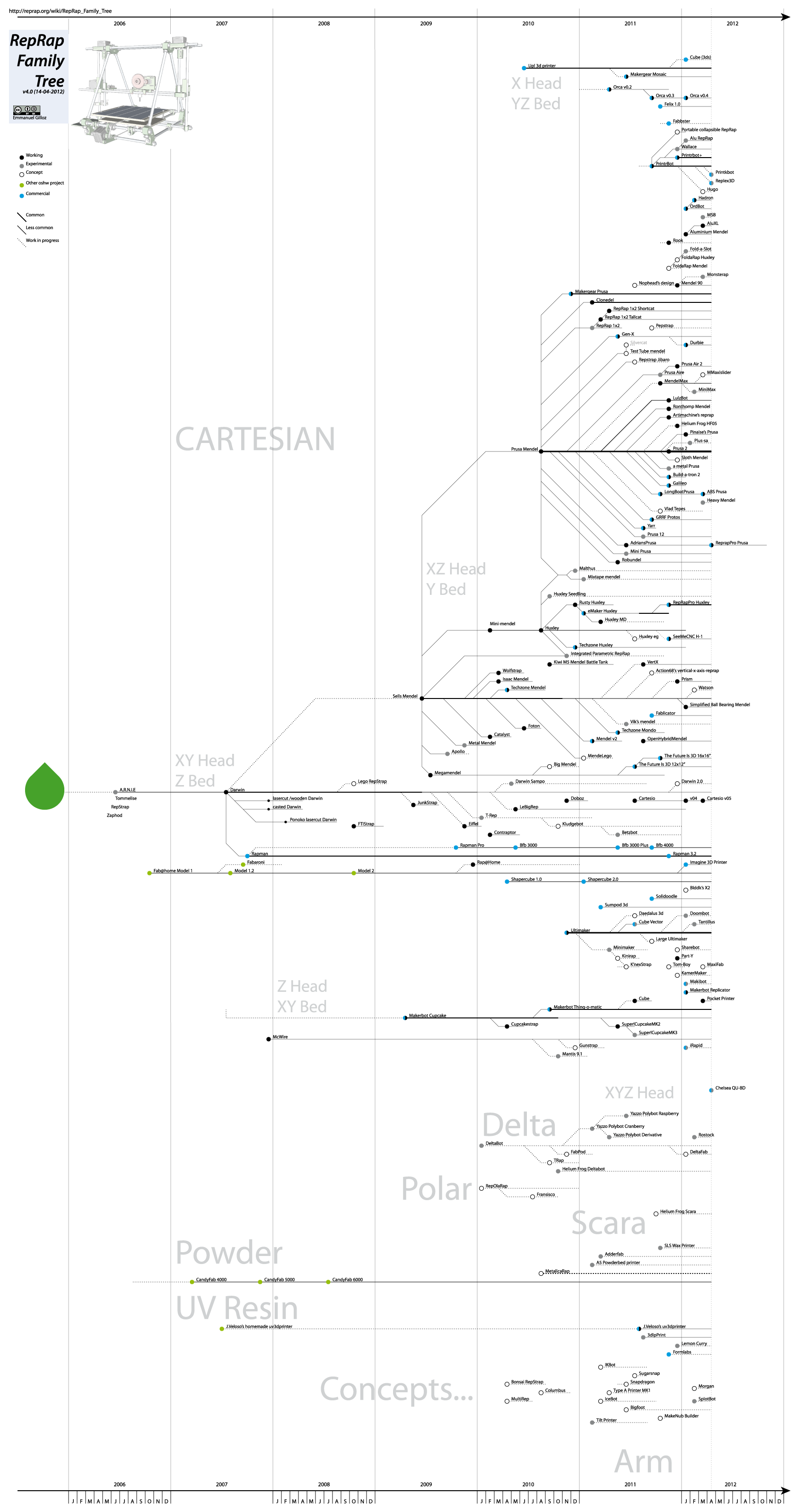 Reprap family tree visualising the evolution of the reprap and some other 3d printers over time